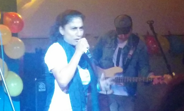 Samira Saraya performing live in 2017